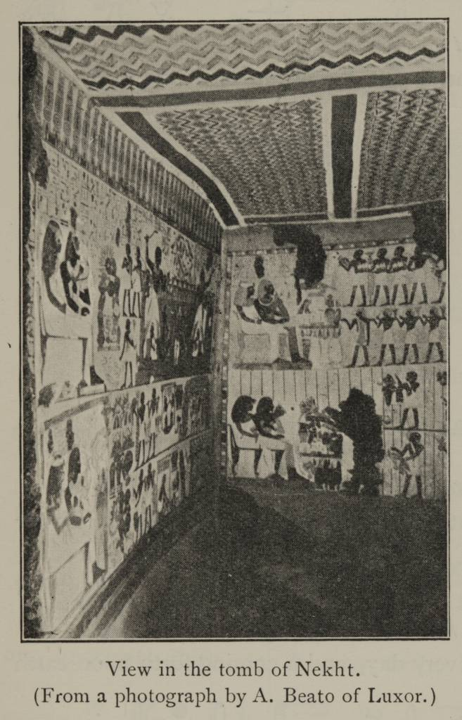 Photograph of the inside of a tomb, with drawings covering the walls.